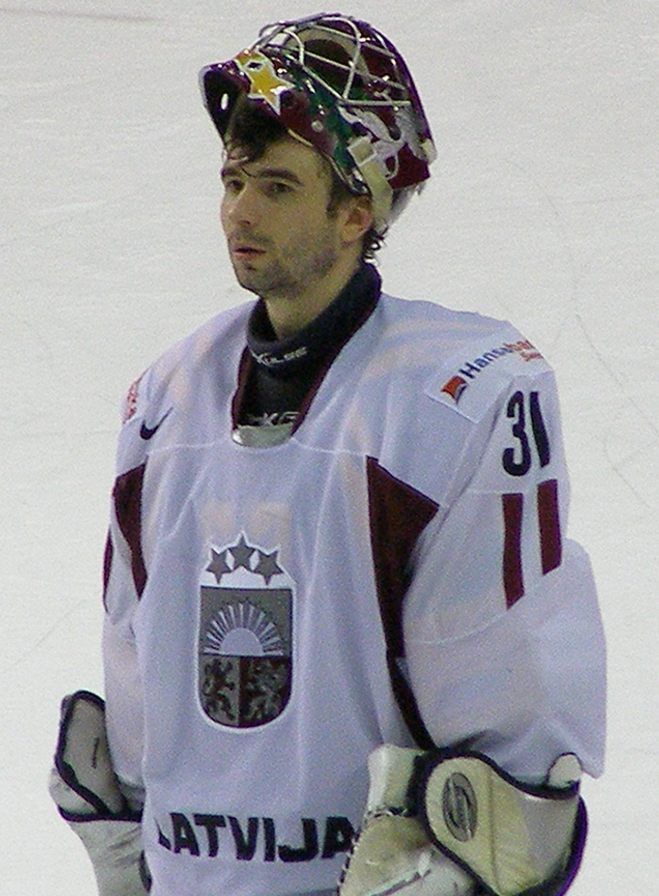 Edgars Masaļskis/Latvia VS Norway (IIHF World Hockey Championship in Halifax NS, May 11 2008)/